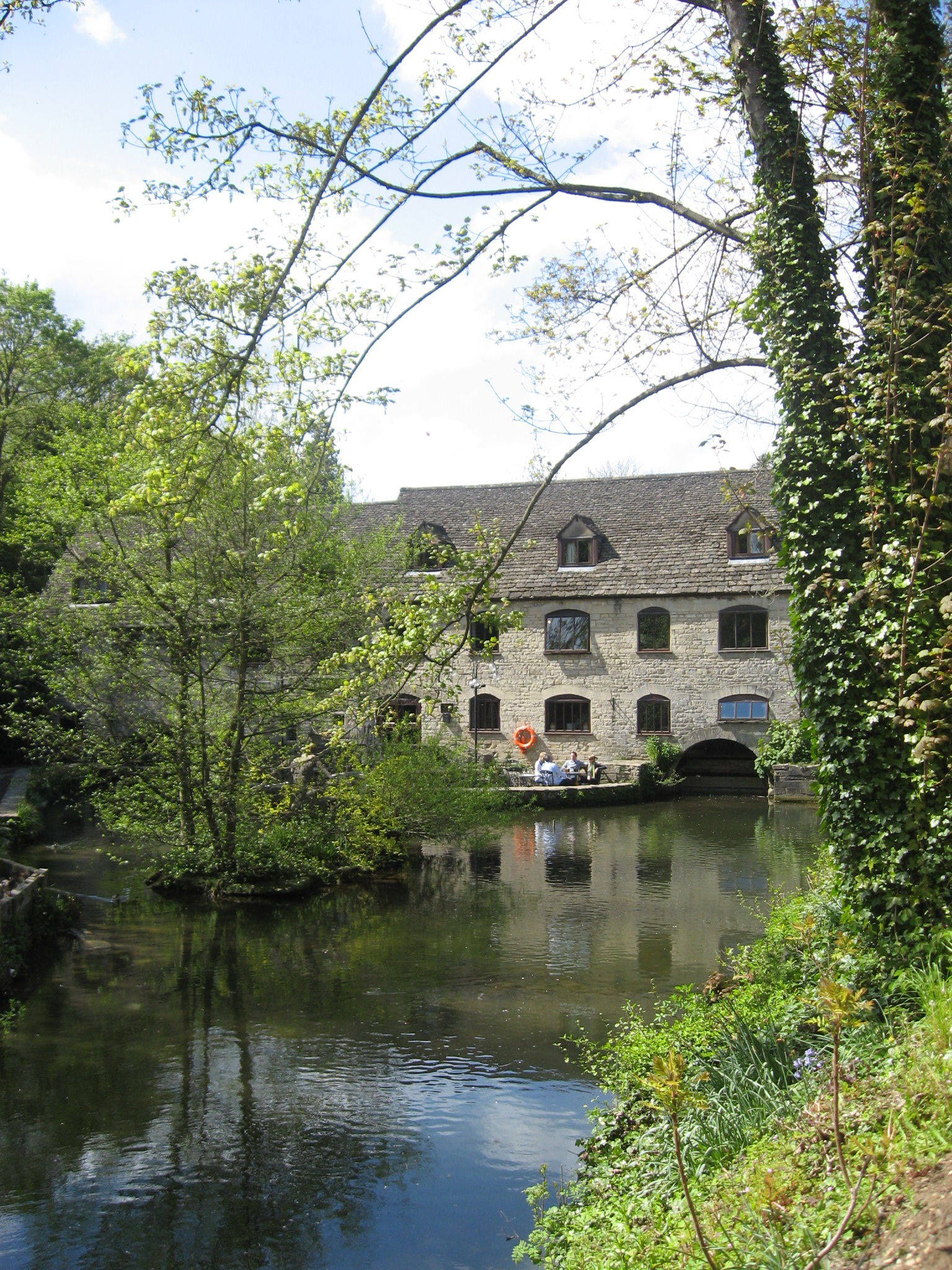 Egypt Mill, Nailsworth, Gloucestershire